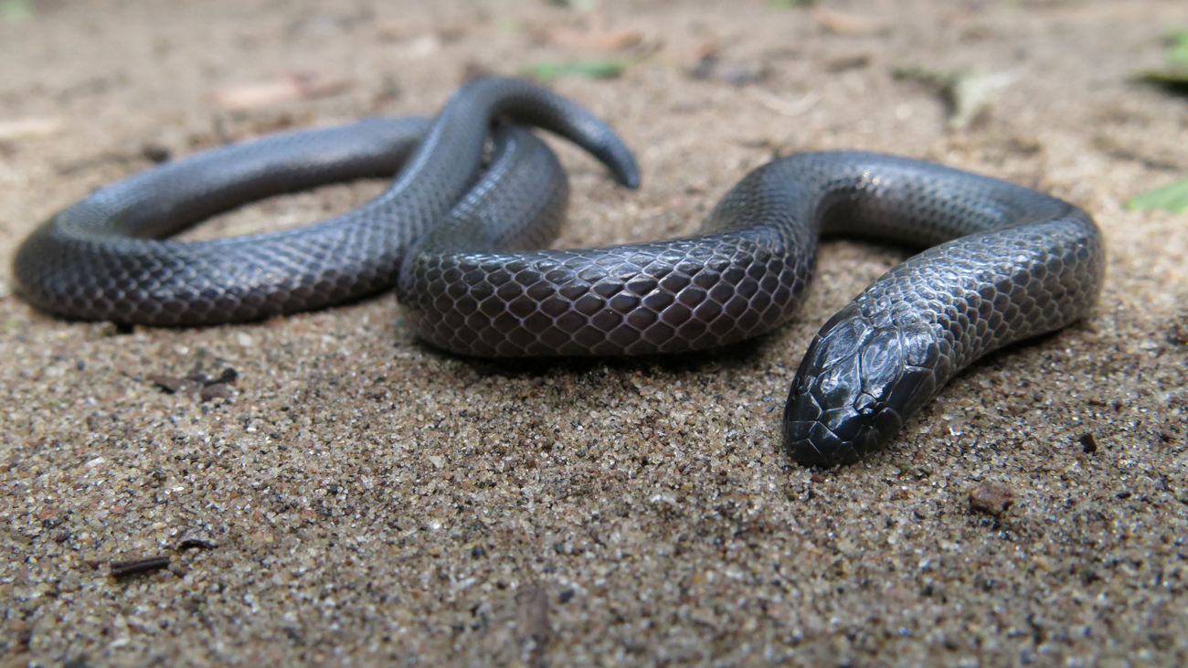 Amblyodipsas polylepis, Mtunzini, Kwa-Zulu Natal, South Africa